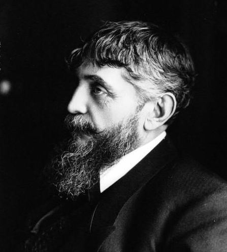 French journalist Adolphe Brisson (1860-1925) circa 1900